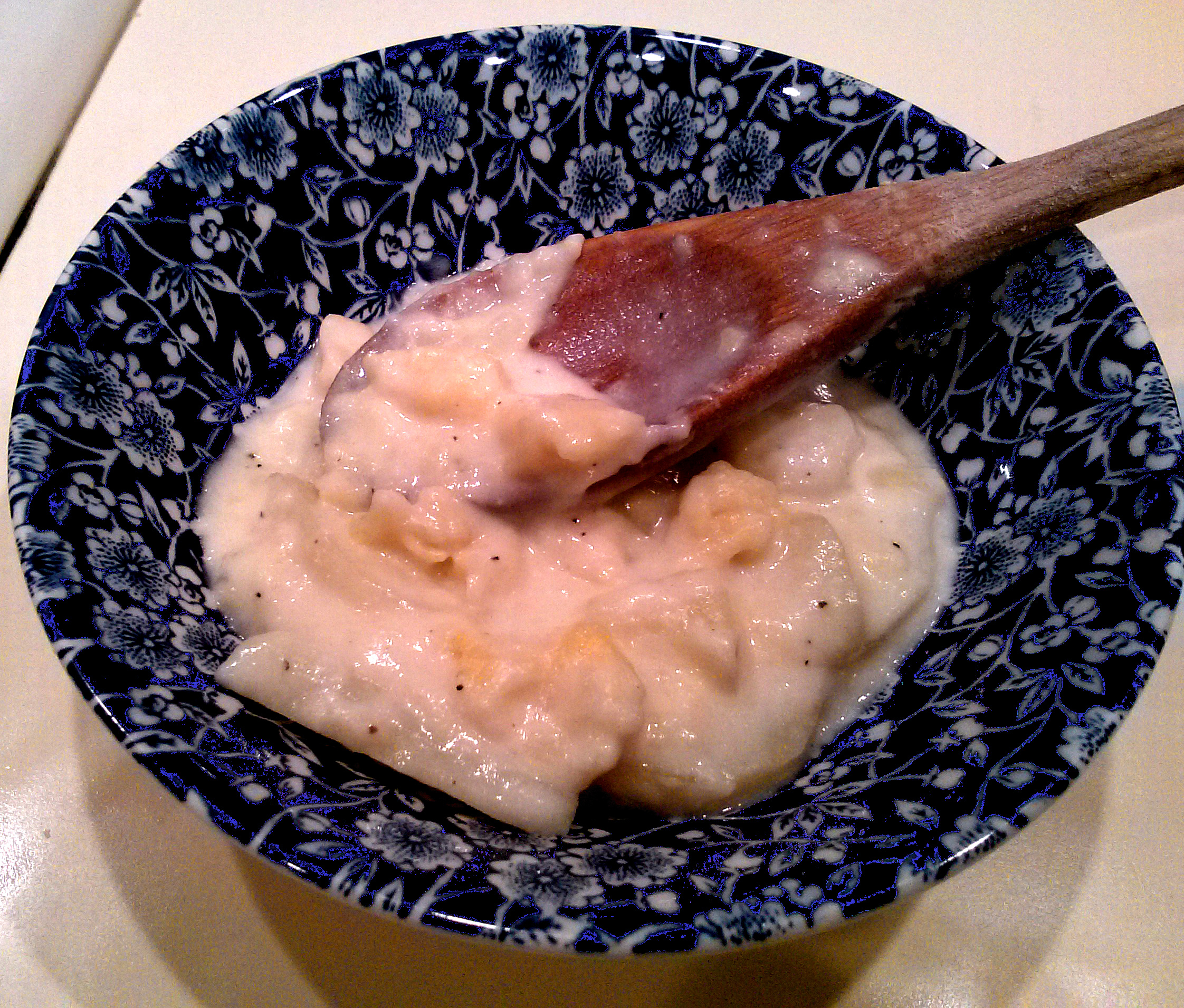 Rivels, mini-dumplings, in Cream of Potato Soup. Two of the yellow-ish rivels can be seen on the spoon.